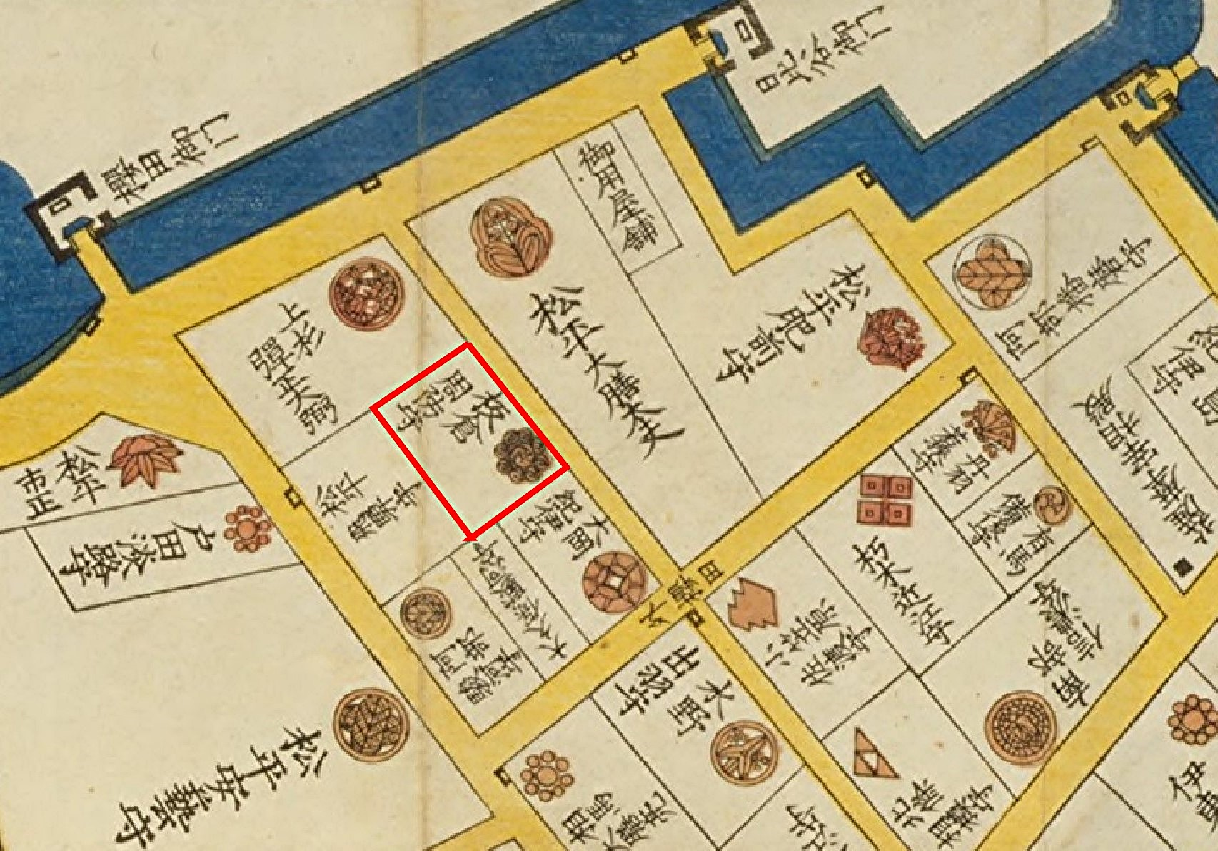 A residence of Itakura clan at Edo